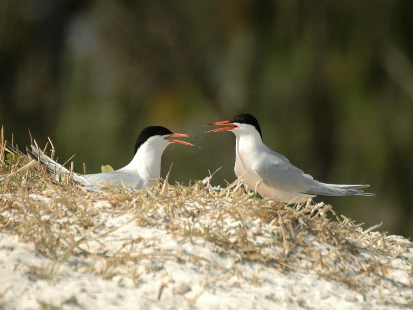 Roseate Tern (Sterna dougallii) Lady Elliot Island, SE Queensland, Australia